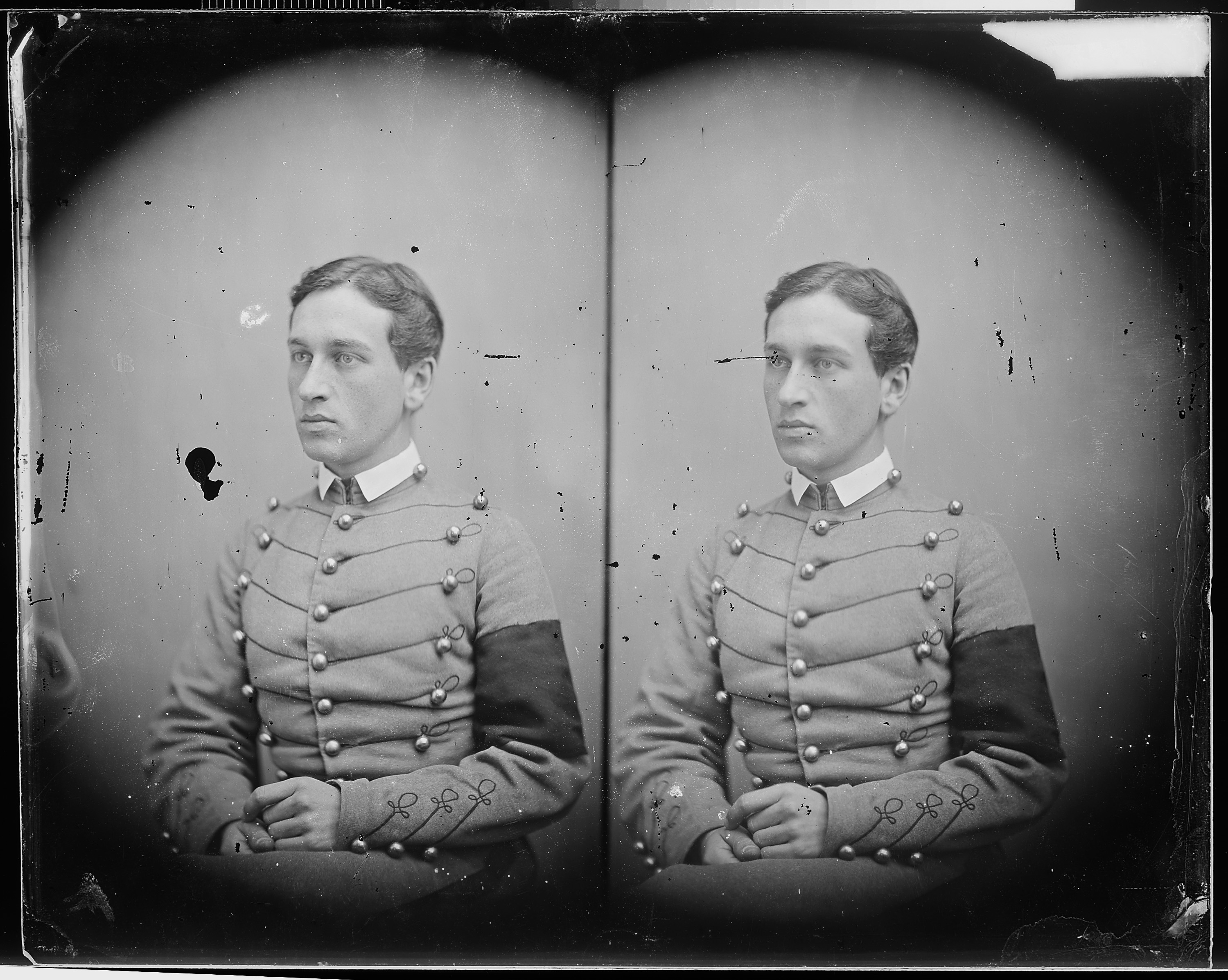 Original Caption: C. Benck, West Point Cadet U.S. National Archives’ Local Identifier: 111-B-2134 From:: Series: Mathew Brady Photographs of Civil War-Era Personalities and Scenes, (Record Group 111) Photographer: Brady, Mathew, 1823 (ca.) - 1896 Coverage Dates: ca. 1860 - ca. 1865 Subjects: American Civil War, 1861-1865 Brady National Photographic Art Gallery (Washington, D.C.) Persistent URL: Repository: Still Picture Records Section, Special Media Archives Services Division (NWCS-S), National Archives at College Park, 8601 Adelphi Road, College Park, MD, 20740-6001. For information about ordering reproductions of photographs held by the Still Picture Unit, visit: Reproductions may be ordered via an independent vendor. NARA maintains a list of vendors at Access Restrictions: Unrestricted Use Restrictions: Unrestricted